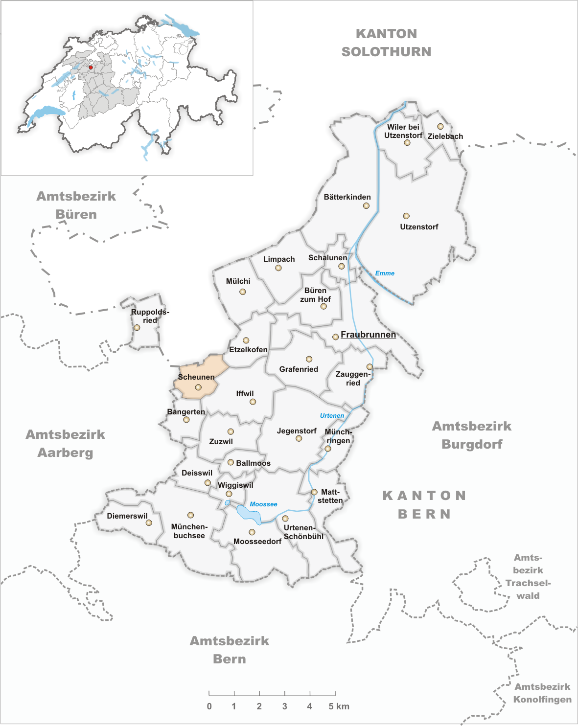 Municipality Scheunen